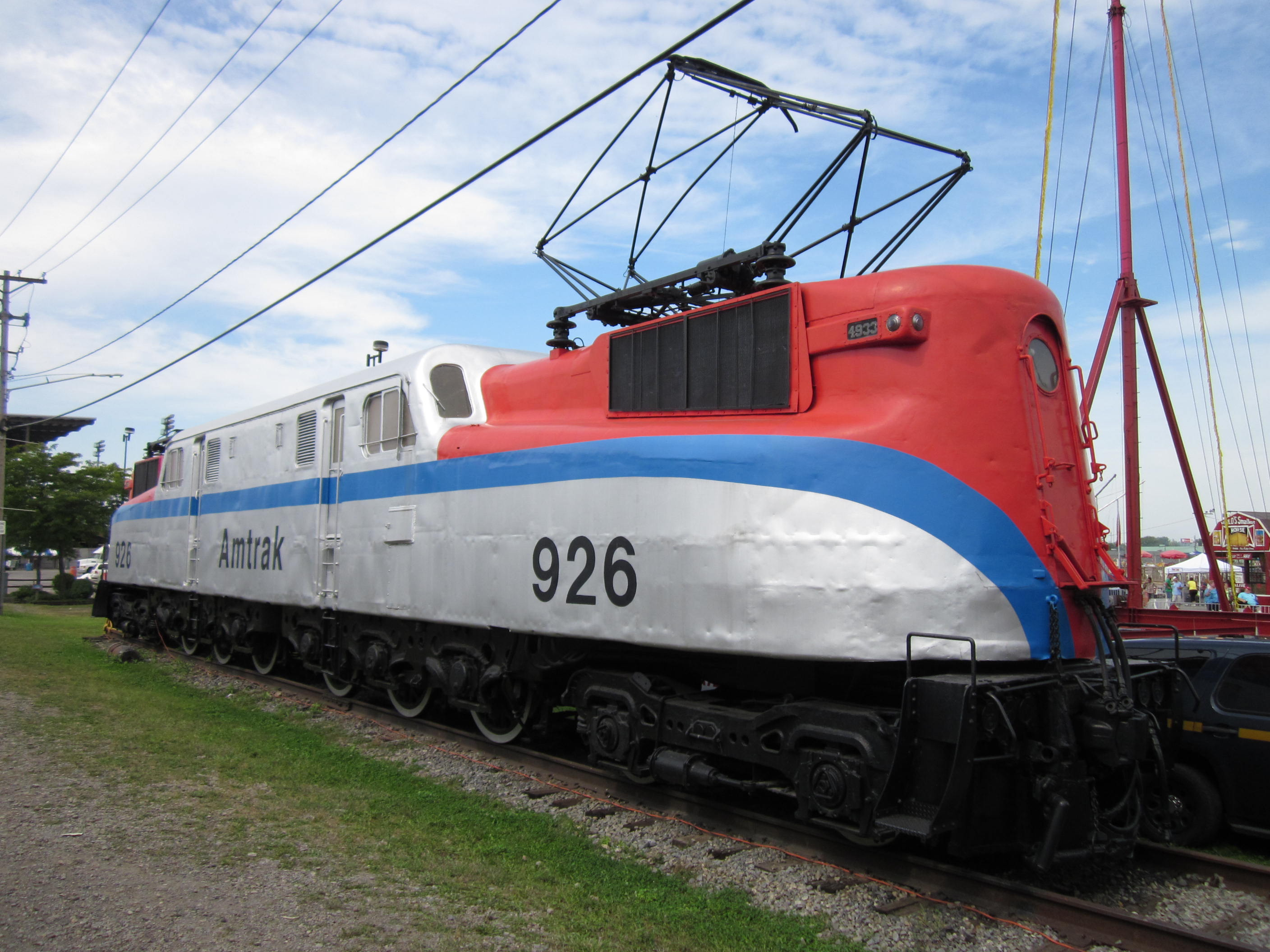 The Great New York State Fair - Syracuse, New York - August 31, 2011